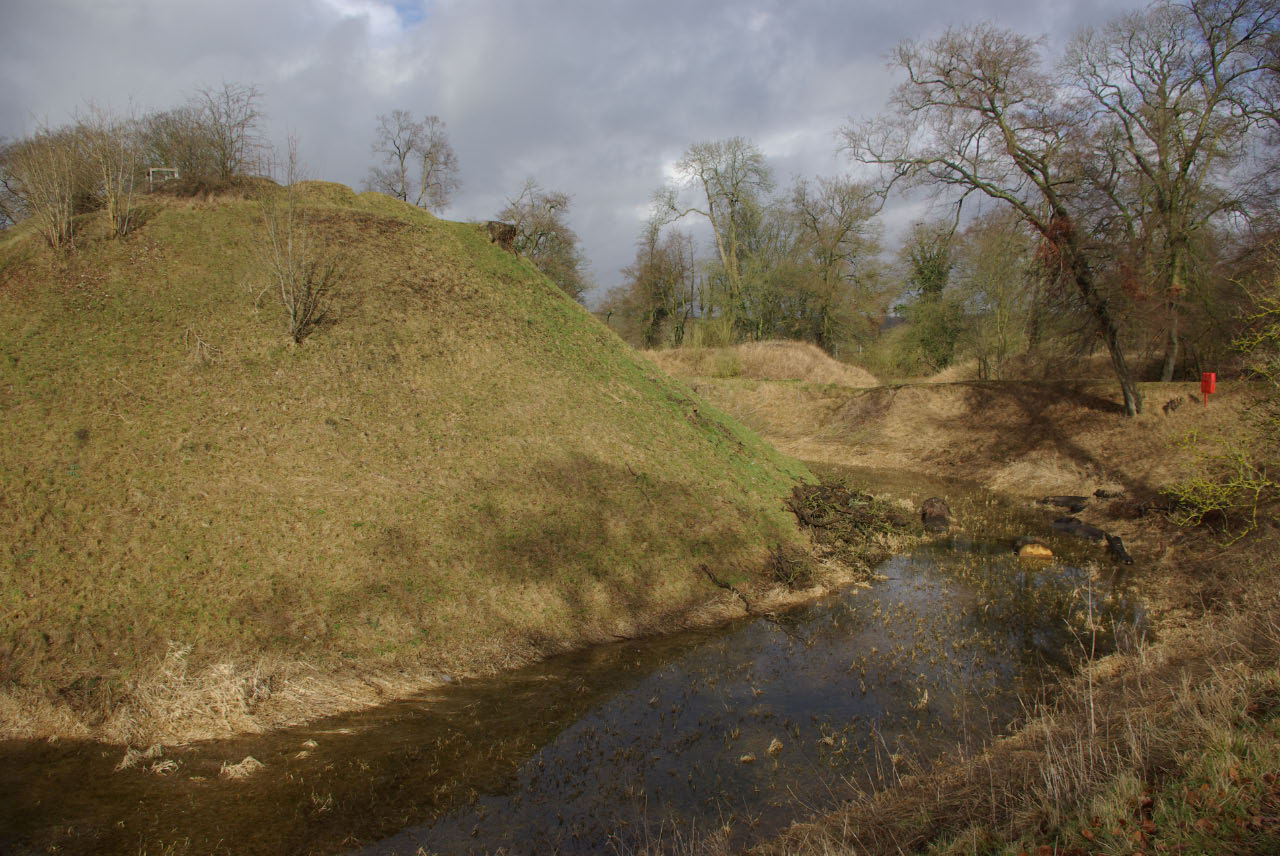 Berkhamsted Castle Showing the motte and inner moat at the north-east corner of the site.